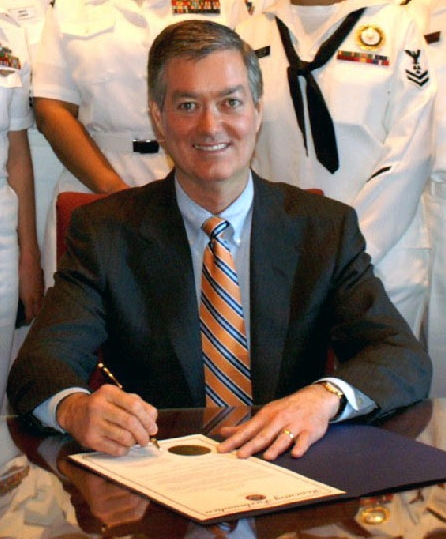 Governor of Colorado Bill Owens, cropped from: Denver, Colo. (May 2, 2006) - Flanked by area Sailors, Denver Gov. Bill Owens signs a proclamation marking the beginning of Navy Week 2006. Navy Week Denver is one of 20 such weeks are planned this year in cities throughout the U.S., arranged by the Navy Office of Community Outreach (NAVCO). U.S. Navy photo by Photographer's Mate 1st Class Janine T. Deneault (RELEASED)